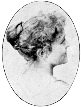 Image scanned from the book "Svenskt Porträttgalleri XX - Arkitekter, Bildhuggare, Målare m.fl. " ("Swedish Portrait Gallery XX - Architects, Sculptors, Painters, ") published 1901